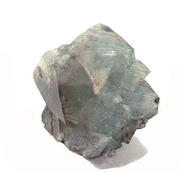 Wardite Locality: Rapid Creek, Dawson Mining District, Yukon Territory, Canada (Locality at ) Size: miniature, 3.2 x 2.9 x 1.6 cm Wardite This is a remarkable floater cluster of large, translucent, bluish-gray wardite crystals, to 2 cm on edge and slightly more across the octohedron's diagonal, from this famous locality which certainly has produced the world's best for the species in my opinion. The front is very lustrous and bright, while the backside is covered with a sprinkling of sparkly siderite microcrystals. There is no contact point - the cluster is entirely a floater free of matrix attachment points, terminated all around! The major crystal here is almost an INCH in size! This specimen features the largest fine crystal for the species that I have personally seen, for sale or otherwise. It was collected in the field by French collector, from whom I obtained it in Munich when he sold a part of his longtime personal collection. 3.2 x 2.9 x 1.6 cm